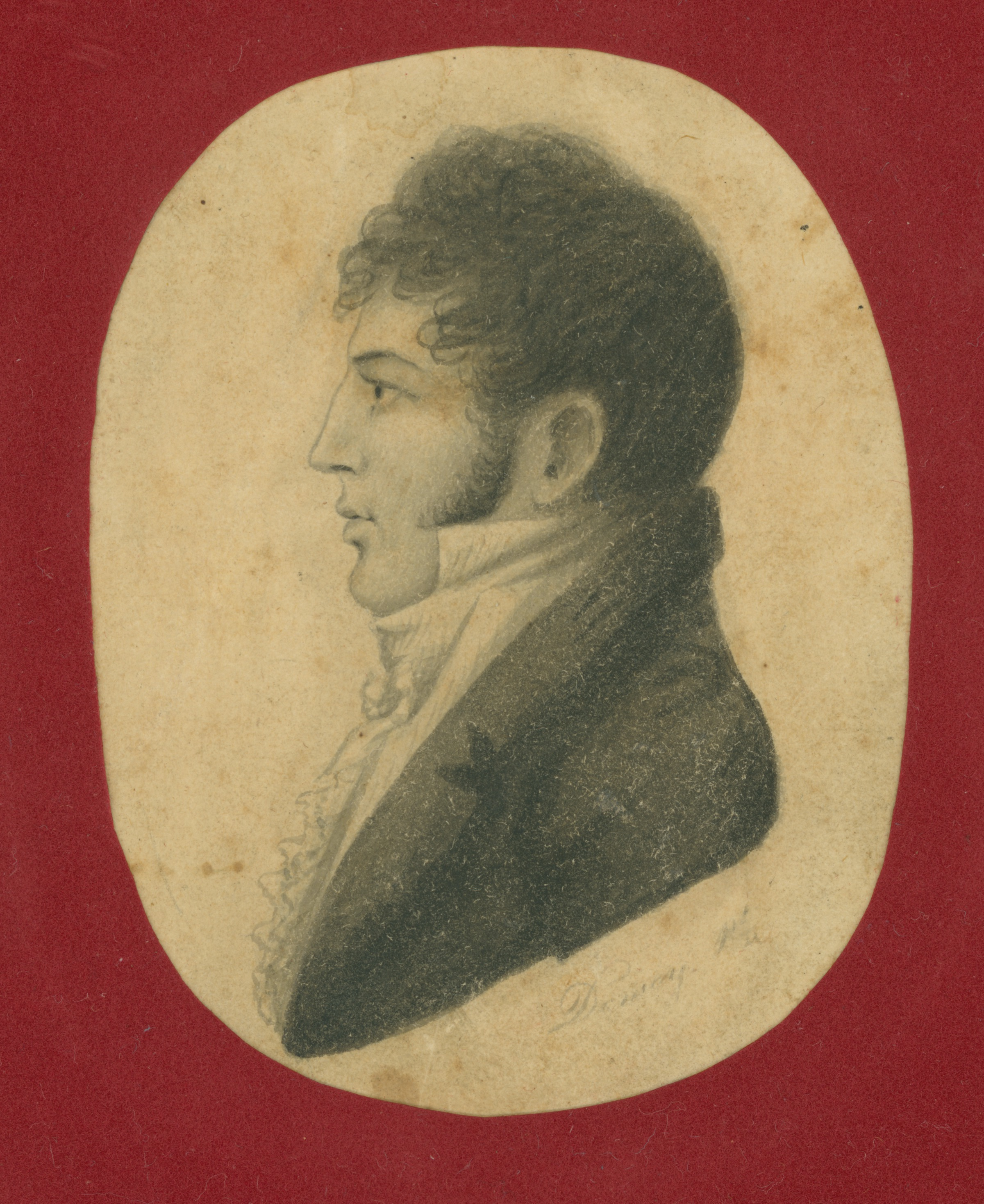 Miniature pencil drawing of Charles Gratiot. Following his graduation from the U.S. Military Academy in 1806, Gratiot, son of the fur trader Charles Gratiot was commissioned in the Corps of Engineers. He served with distinction during the War of 1812 and ascended through the ranks. He was brevetted a brigadier general with the U.S. Army in 1828.Title: Portrait of Charles Gratiot